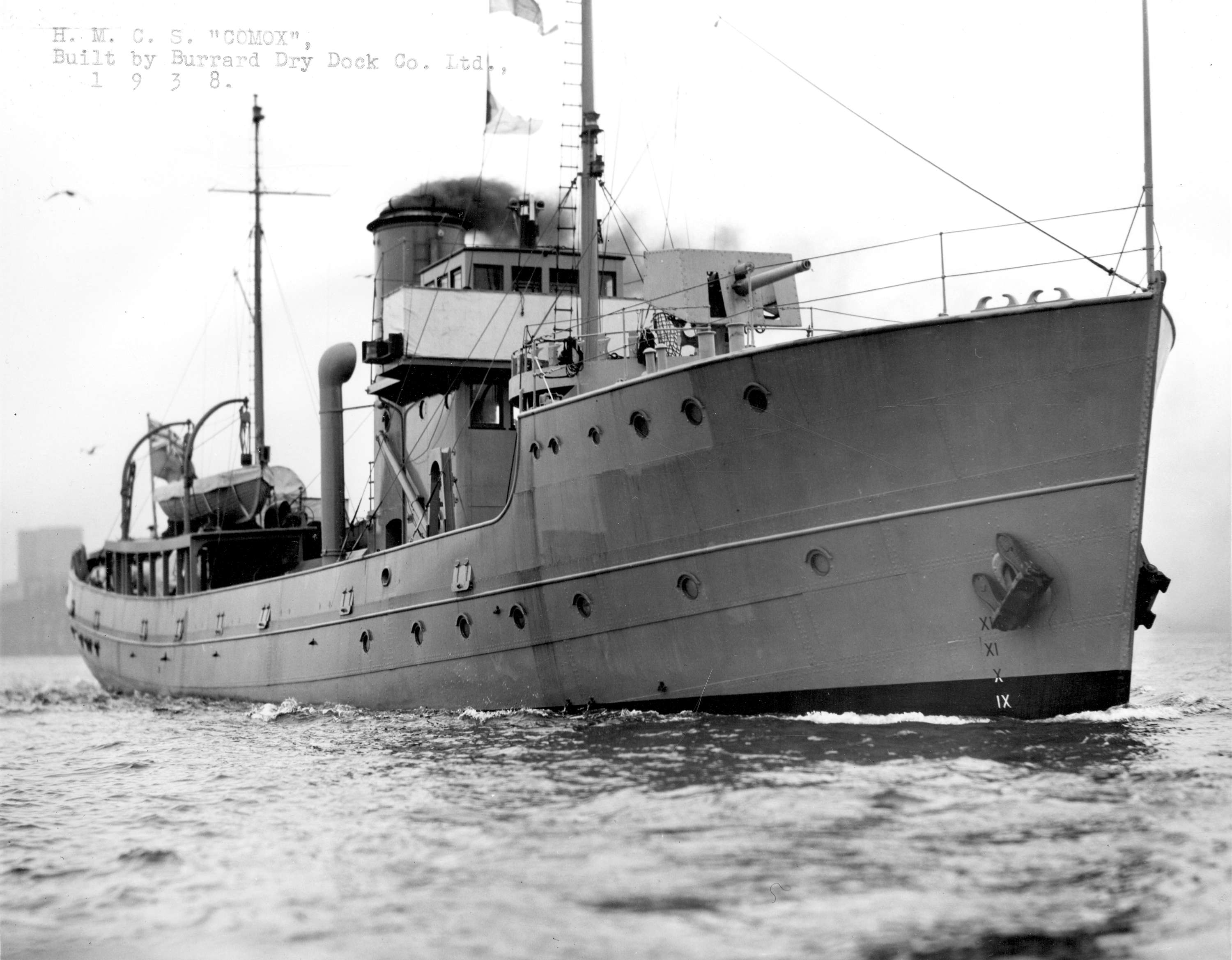 Minesweeper H.M.C.S. "Comox".